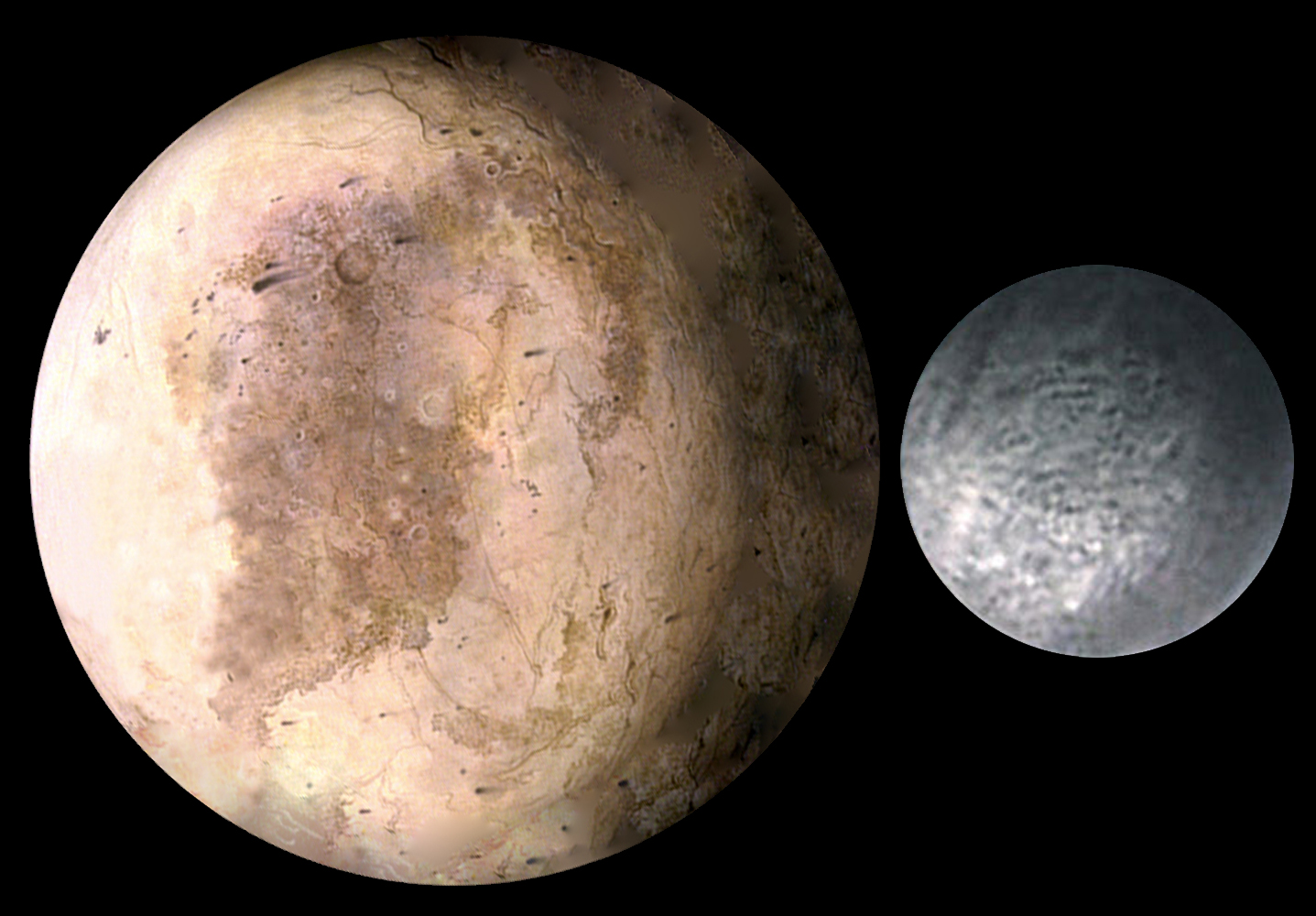 A comparison of Pluto and Charon.